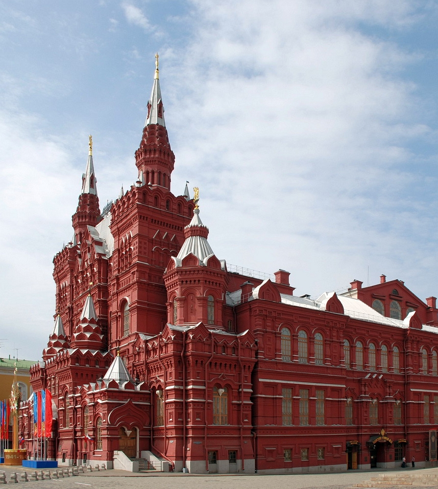 Museum is placed at Red square, Moscow, Russia